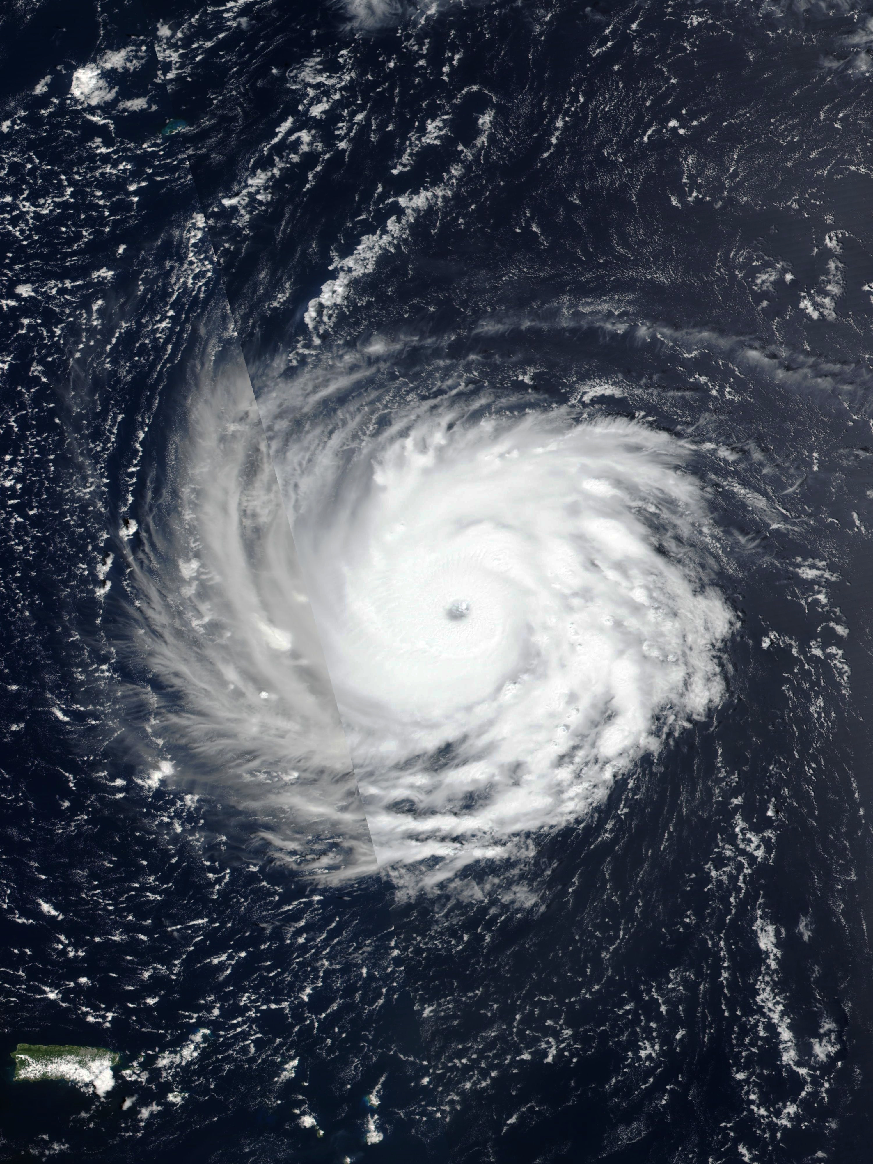 Hurricane Florence on September 10, 2018